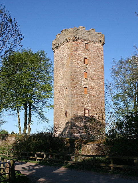 Burgie Castle. Only this six-storey tower remains of the original large Z-plan castle.It looks in reasonable repair, though the windows have all been boarded up since 1991 when 13146 was taken. The castle was finished in 1602 by Alexander Dunbar, lay Dean of Moray. He obtained the lands from his brother-in-law Walter Reid, last Abbot of Kinloss Abbey, in 1566. The fireplace lintel is carved with the initials A D, K R and R D, presumably for Alexander Dunbar, his wife Katherine Reid and son Robert Dunbar.